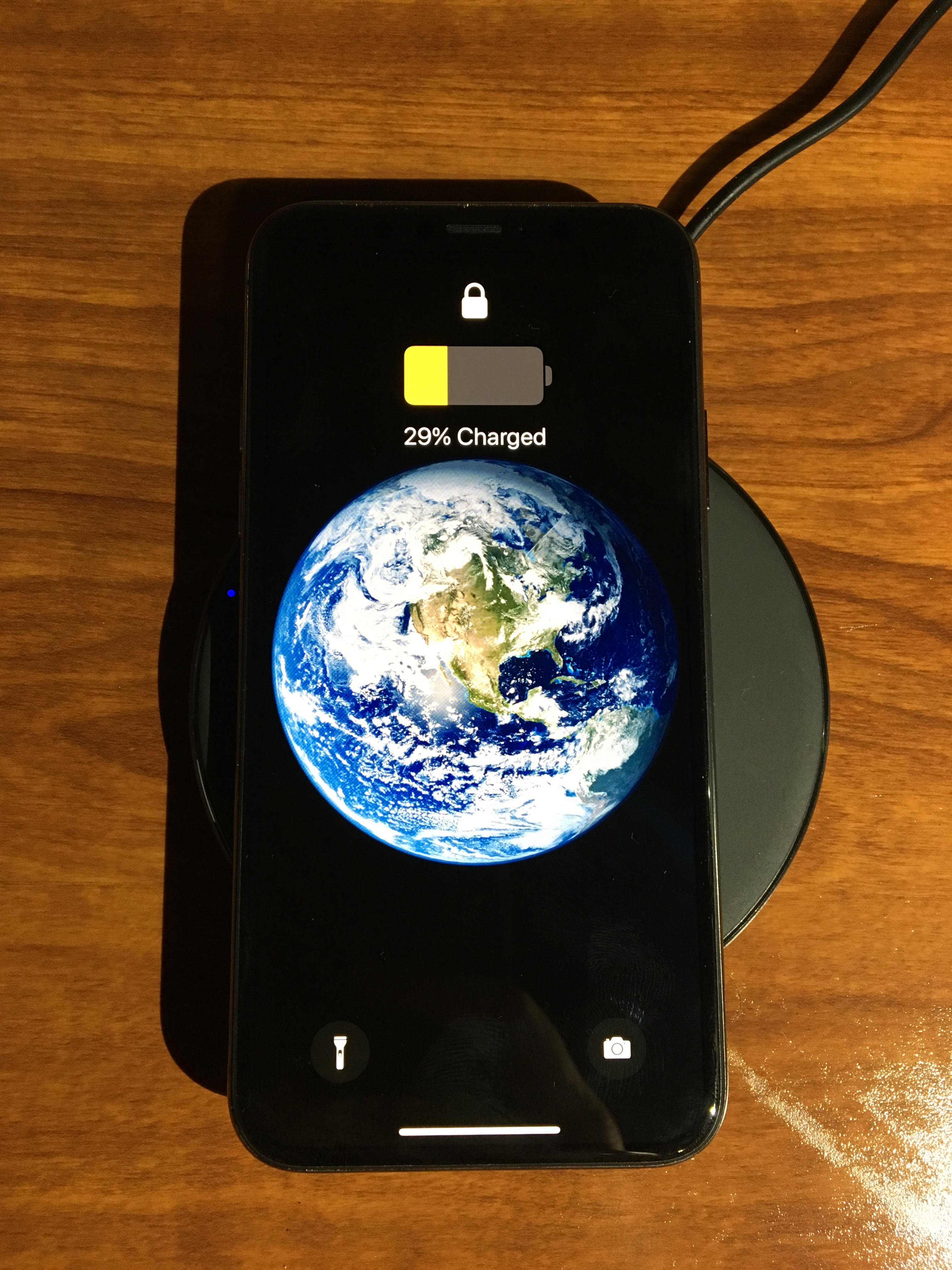 An Apple iPhone whose battery is being charged on a wireless charging plate. Wireless charging is being used in the latest generations of smartphones to eliminate the need to plug a cable into the phone. The phone is simply placed on the charging plate. The plate senses the phone and begins the charging process. A high frequency alternating current flows through a coil of wire in the plate, creating an oscillating magnetic field that induces an alternating current in a second coil in the phone. This current is rectified to direct current and charges the phone's battery.